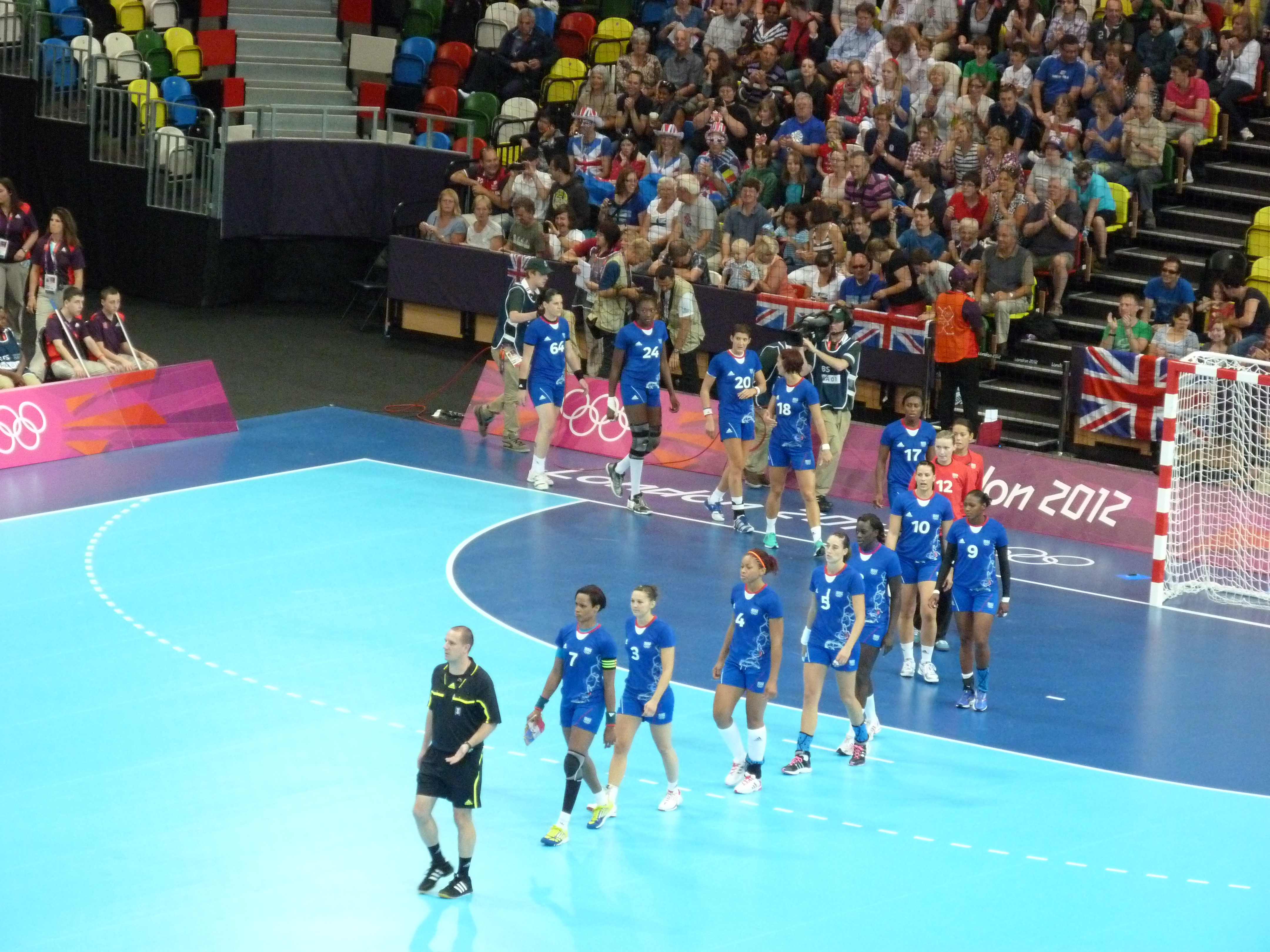 France women's national handball team at the Copper Box before a game against Sweden at the 2012 Summer Olympics.